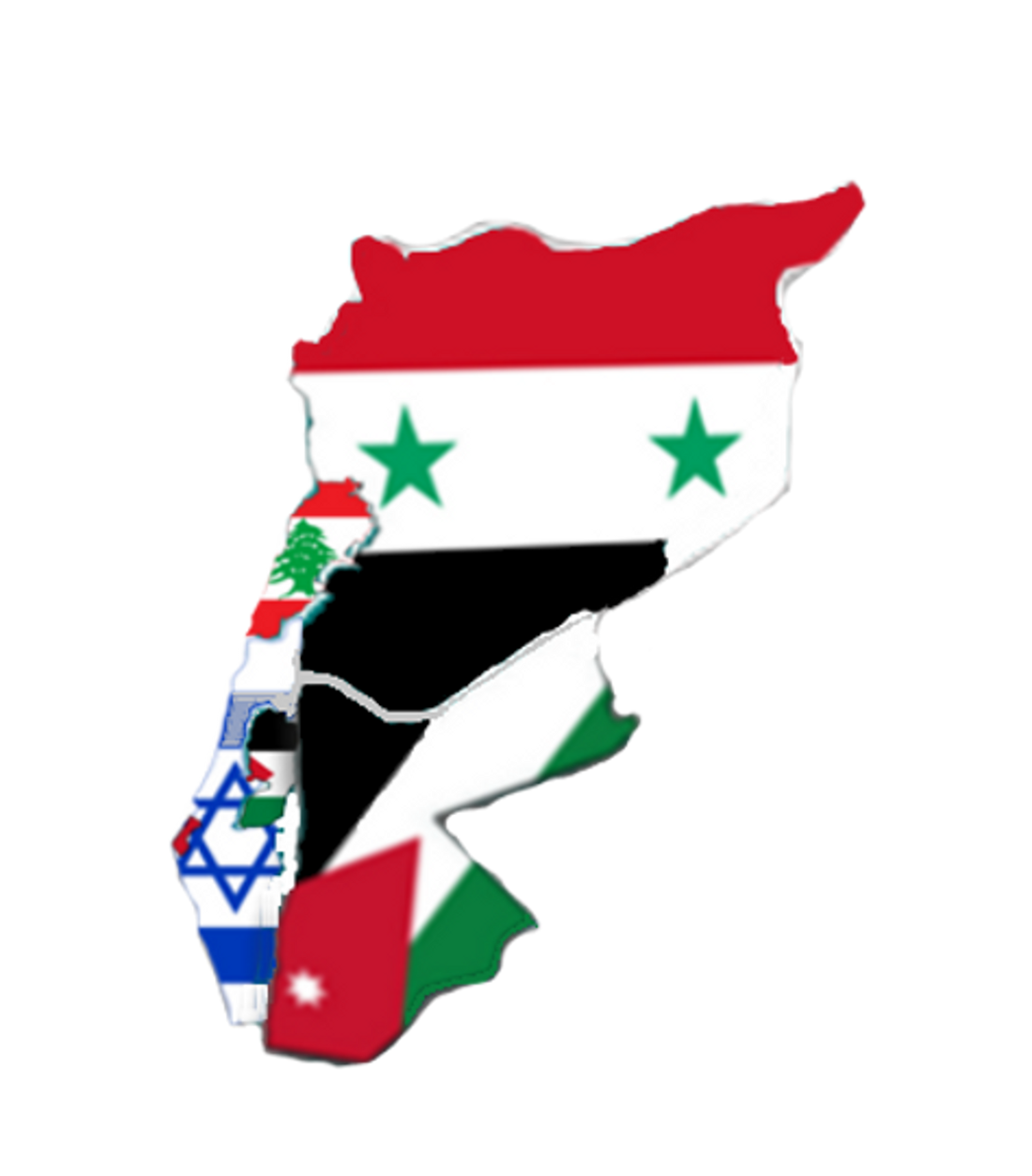 Flag-map of Levant